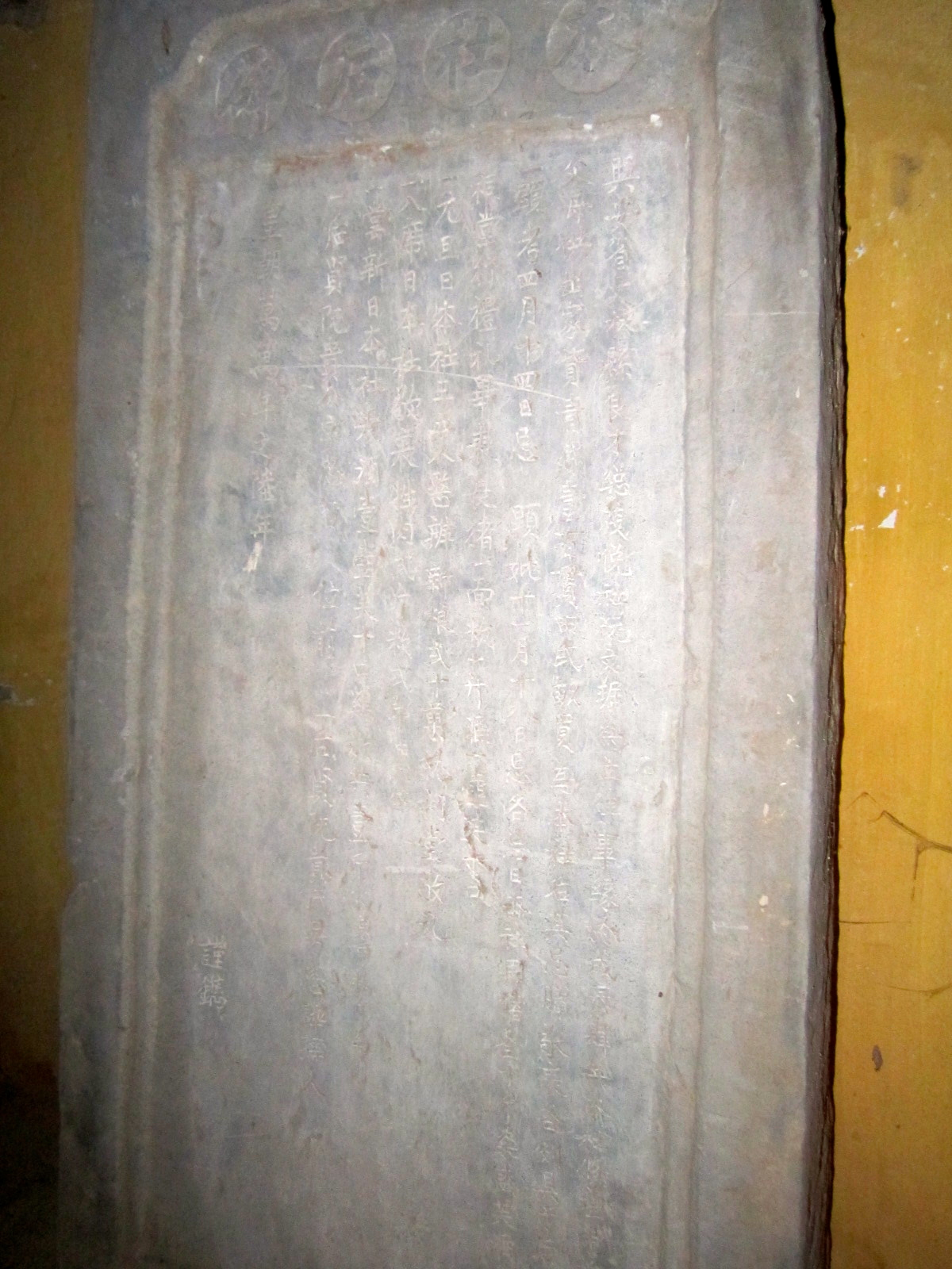 1891 Stone stele in a Vietnamese communal hall (đình), Hải-dương province